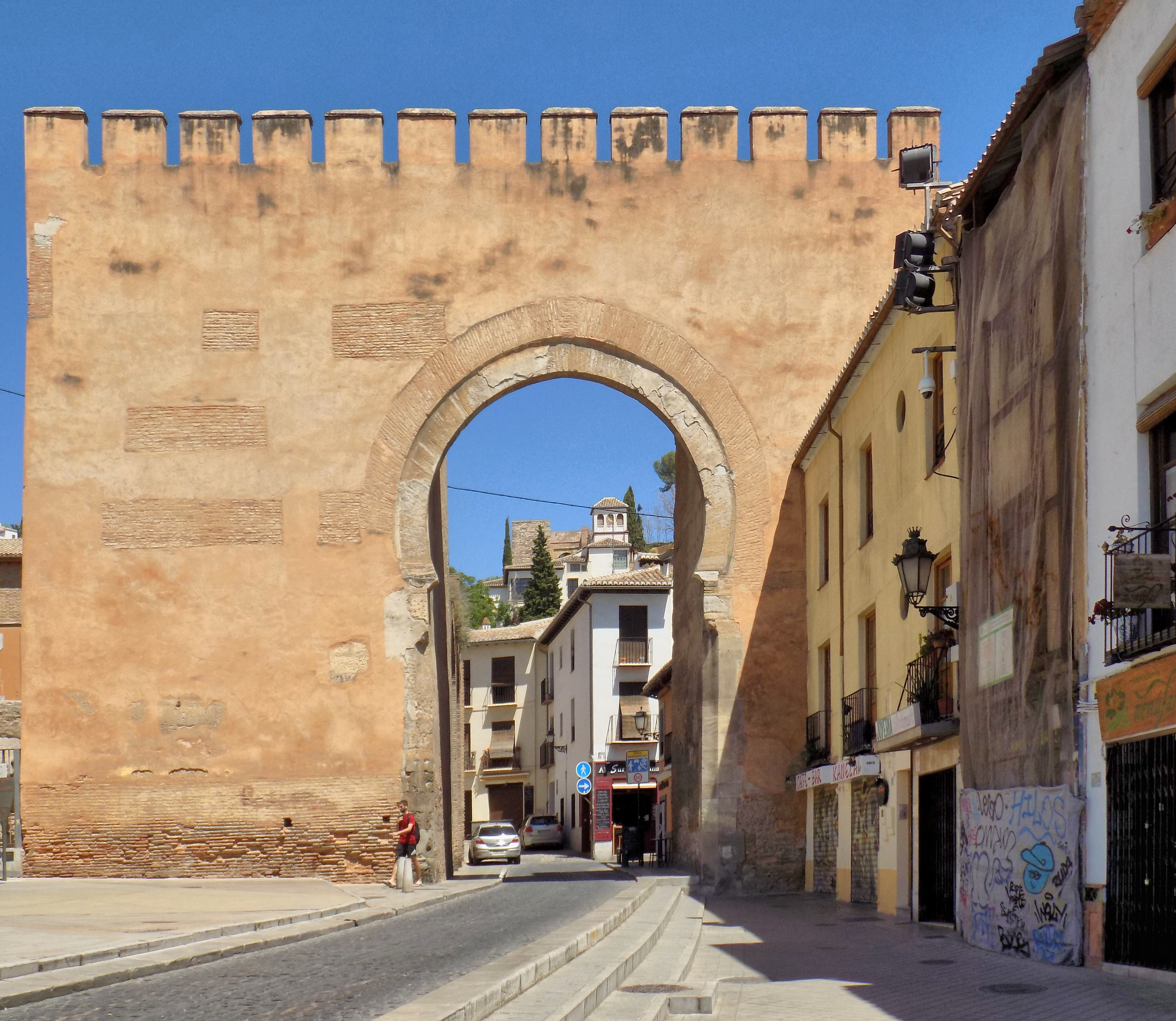 The Gate of Elvira (Arco de Elvira) in Granada, Spain